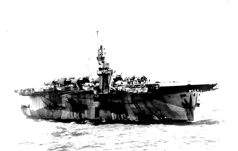 The U.S. Navy escort carrier USS Natoma Bay (CVE-62) underway in the Pacific Ocean, circa 1944. She is painted in (a badly weathered) Camouflage Measure 33, Design 14A.